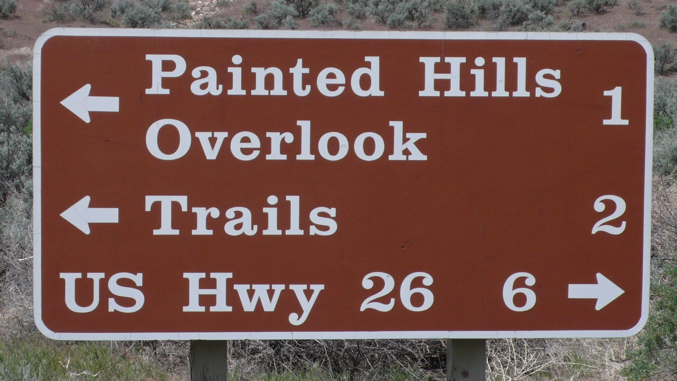 Clarendon Bold (typeface) on a US National Park Service sign at Painted Hills, photo of a U.S. govt. owned sign